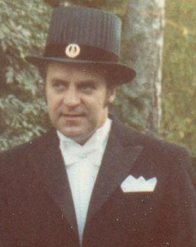 Reima Kampman